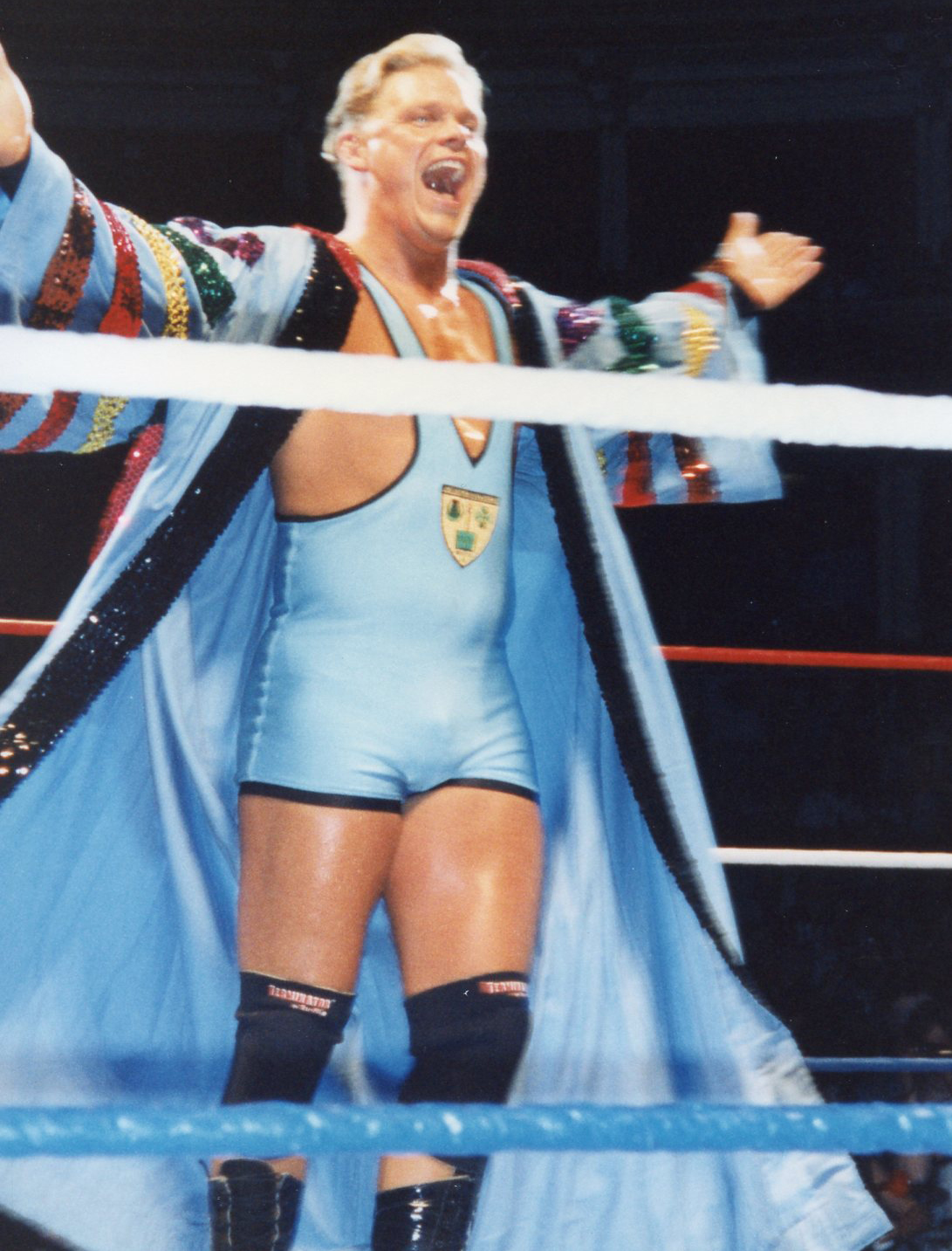 Troy Martin in full "Dean Douglas" attire. Taken October 4, 1995 at London, England's Royal Albert Hall.